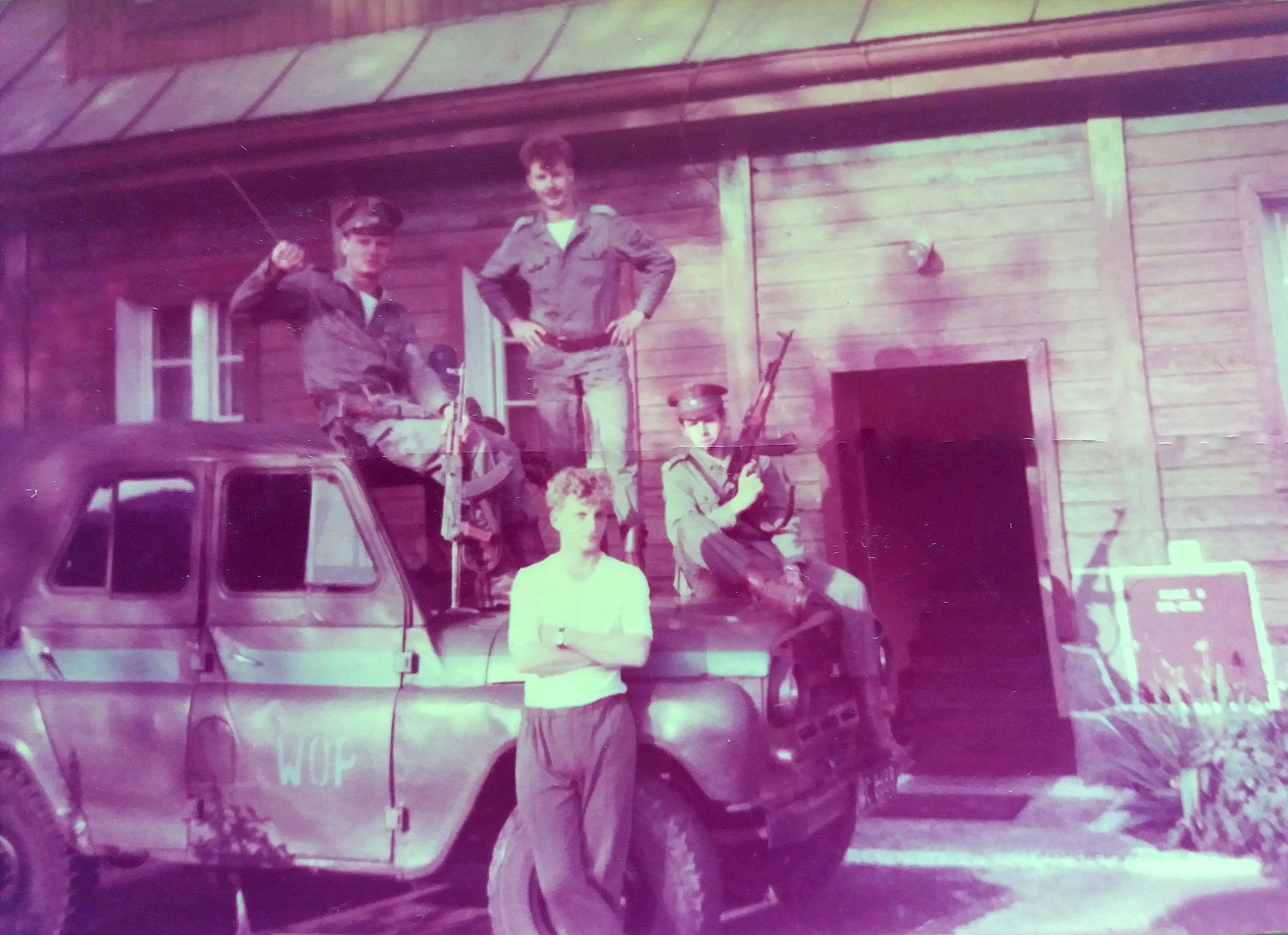 Border Protection Forces in Niedamirów